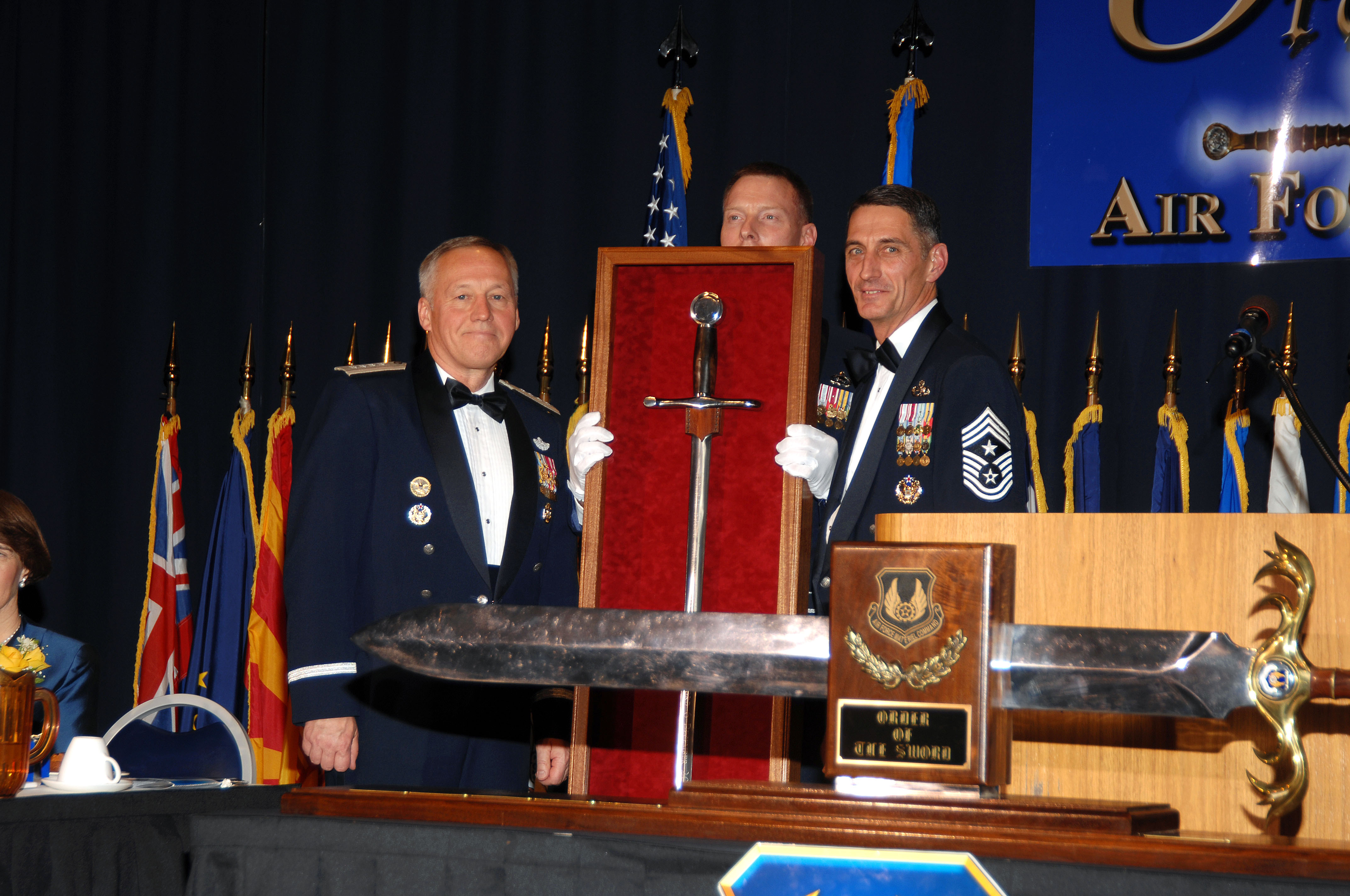 With the Air Force Materiel Command Order of the Sword in the foreground, General Bruce Carlson, AFMC commander (left), is joined by the Order of the Sword sergeant at Arms, Chief Master Sergeant William Gurney, who holds General Carlson’s personal sword, and Chief Master Sergeant Jonathan Hake, AFMC command chief master sergeant.